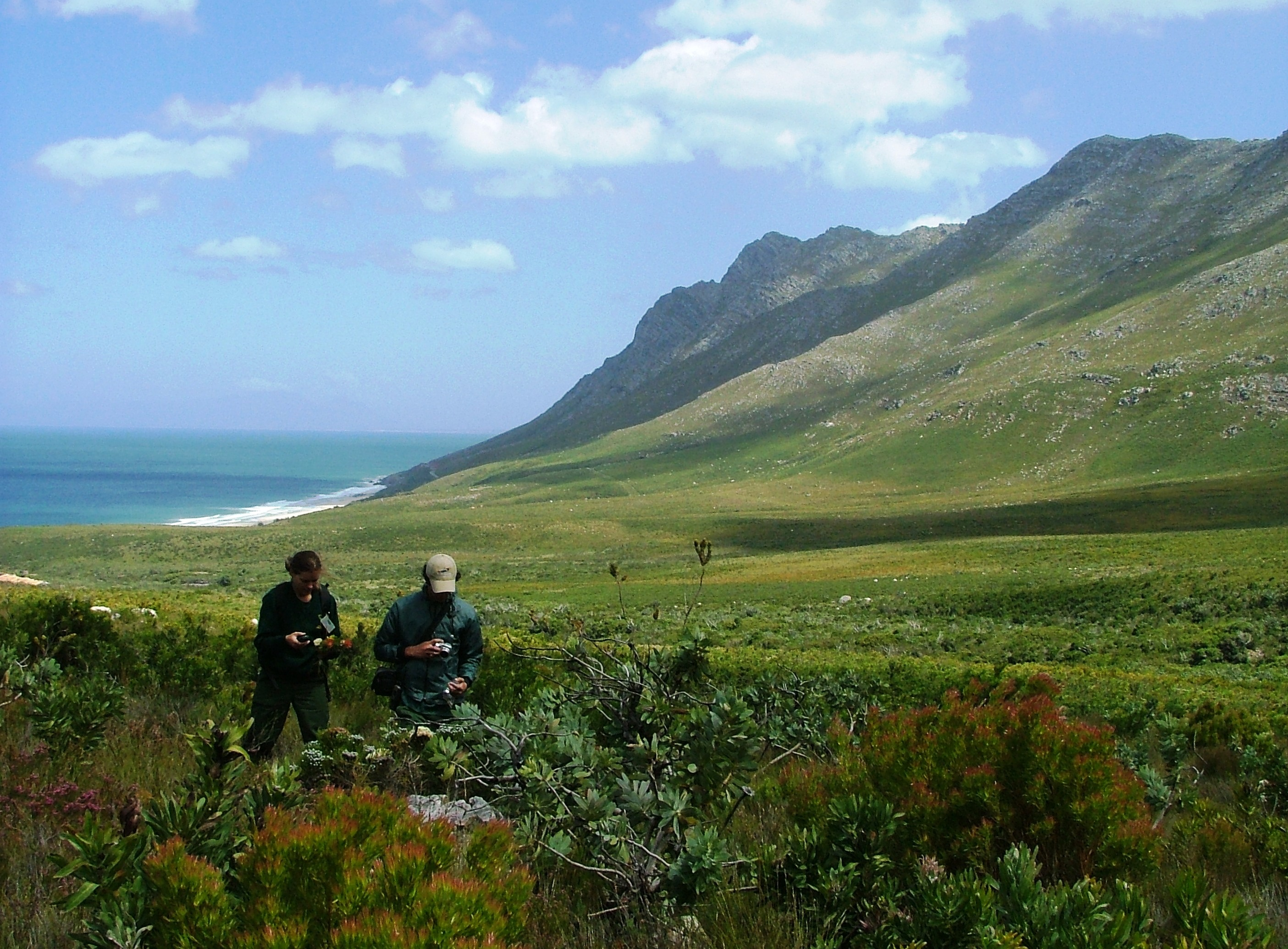 Kogelberg Nature Reserve. City of Cape Town public image. Kogelberg Sandstone Fynbos.